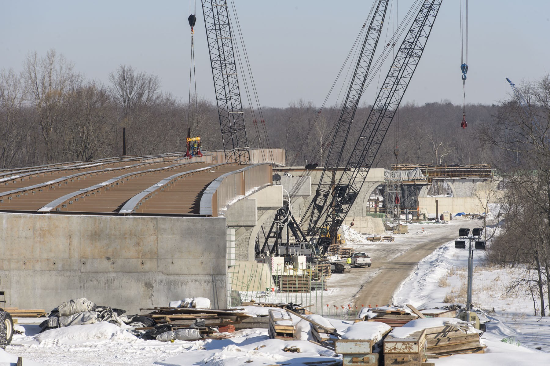 Construction on the deck for approaches to the M-231 bridge over the Grand River